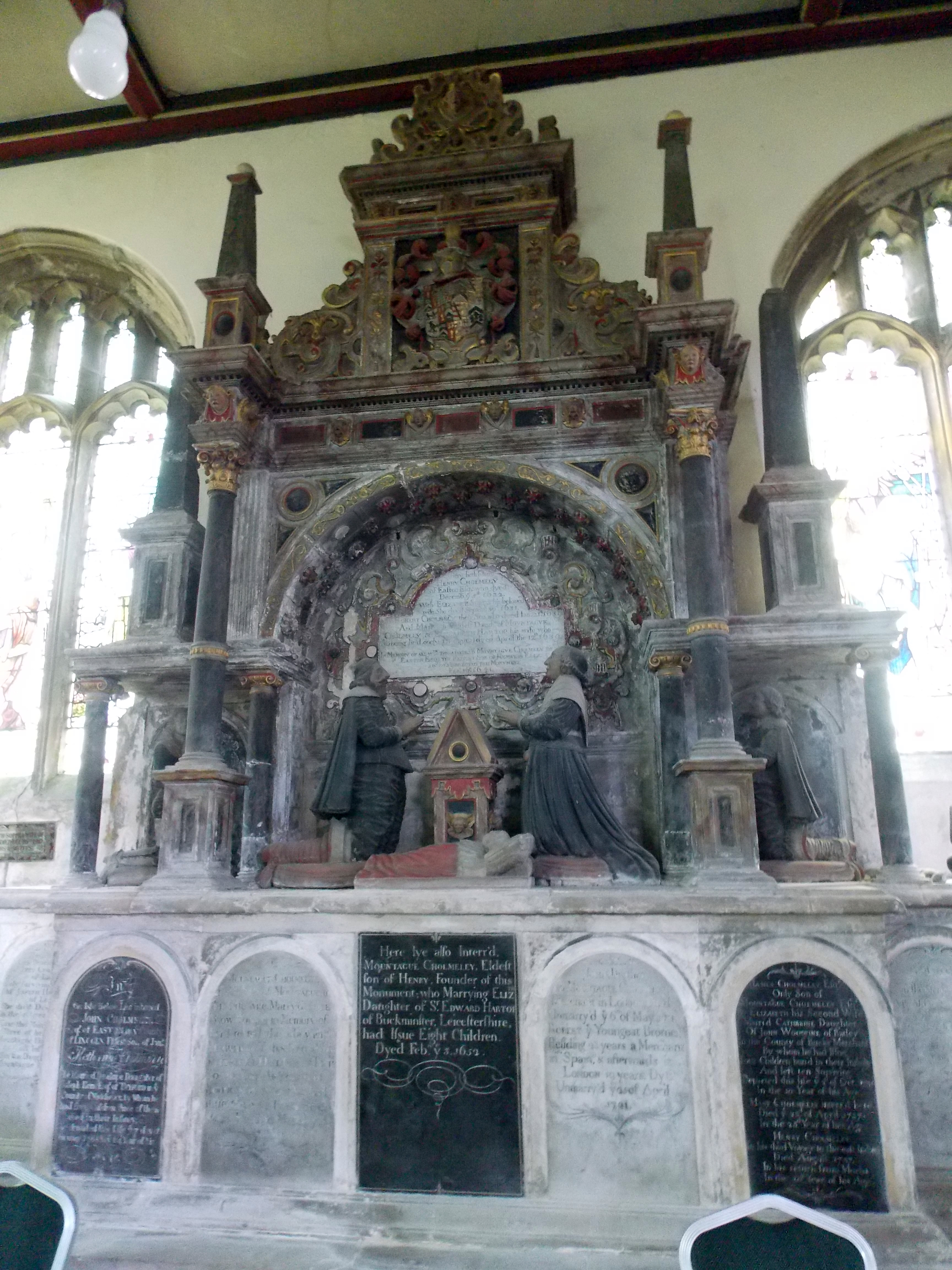 Stoke Rochford Ss Andrew & Mary, interior - south chapel monument to Henry and Elizabeth Cholmeley